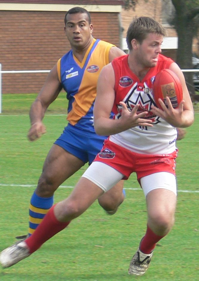 Canadian Aussie Rules player evades Nauruan opponent at 2008 International Cup